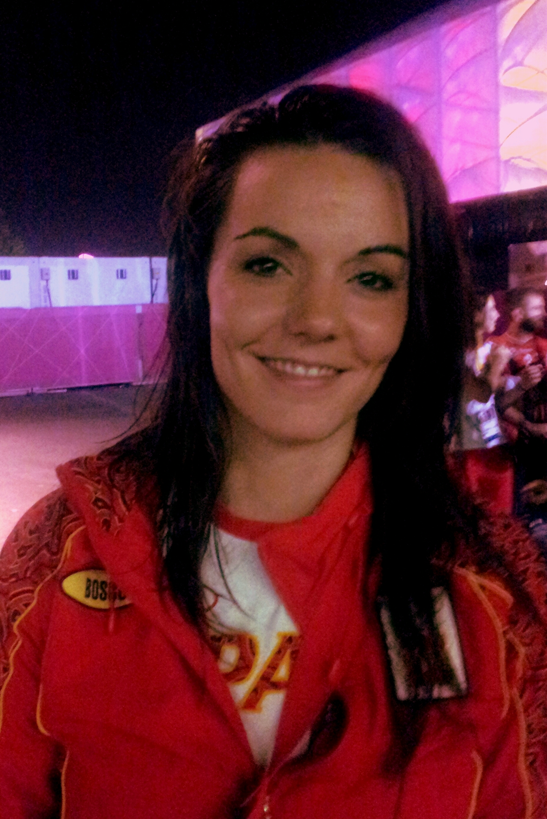 Spanish handball player Beatriz Fernández, taken at The London 2012 Summer Olympic Games